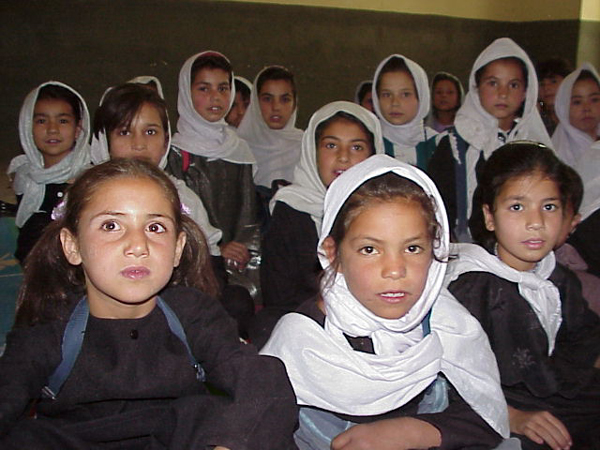 Some of the girls attending one of the 23 first grade classes at the Ashaqan Arefan school. Ages of the girls and boys in first grade range from 6-12 years. (photo by DOS - Sally Hodgson)